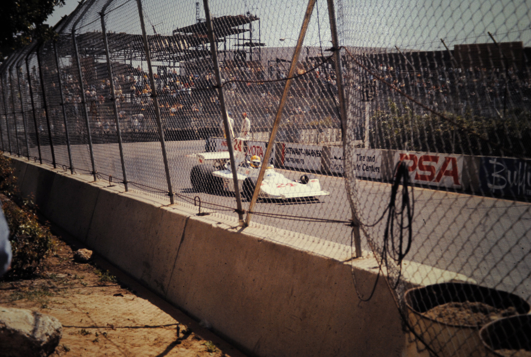 Harald Ertl, driving his Hesketh Ford at the 1976 United States Grand Prix West.